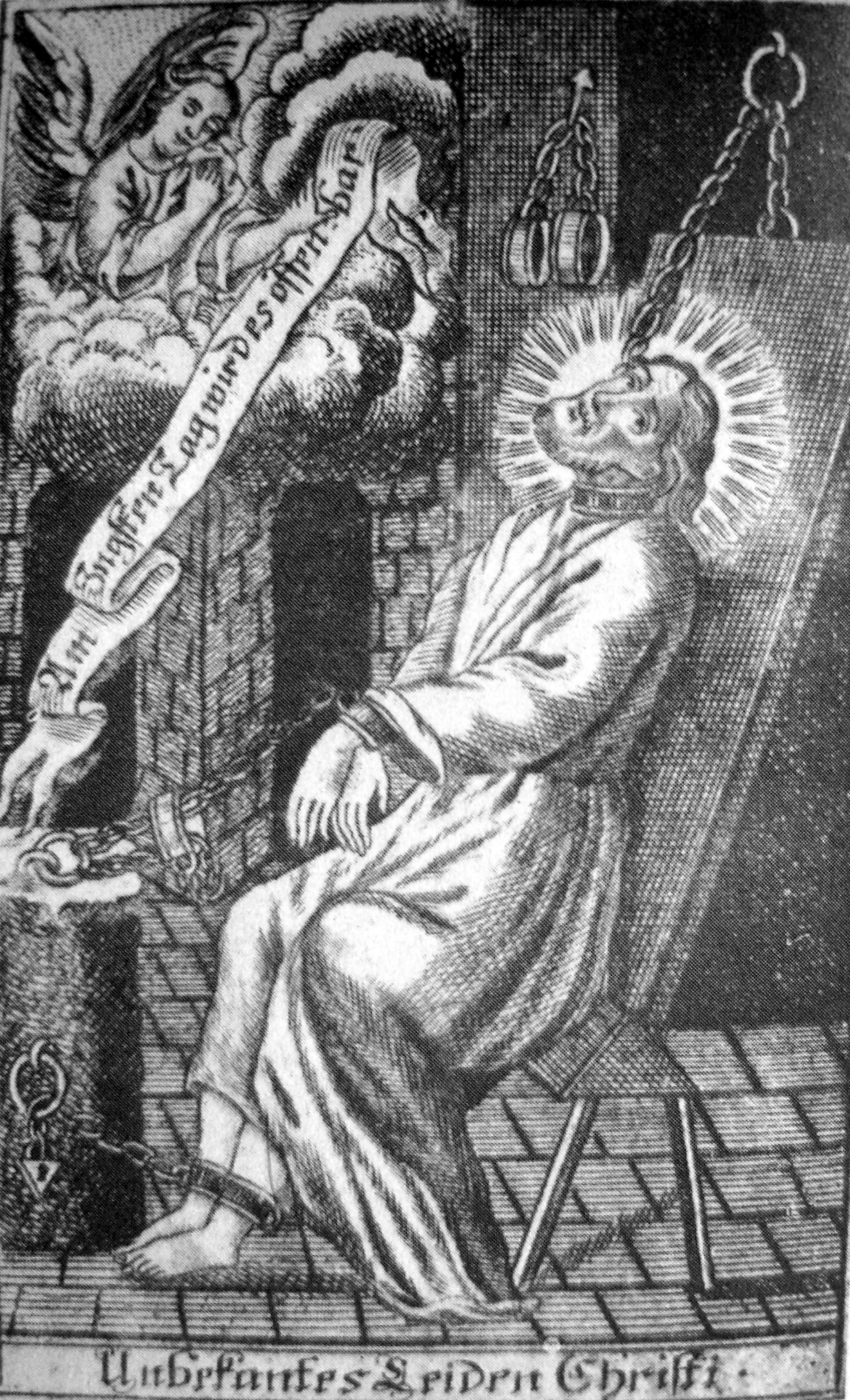 The Secret Passion of Christ. Copperplate engraving.